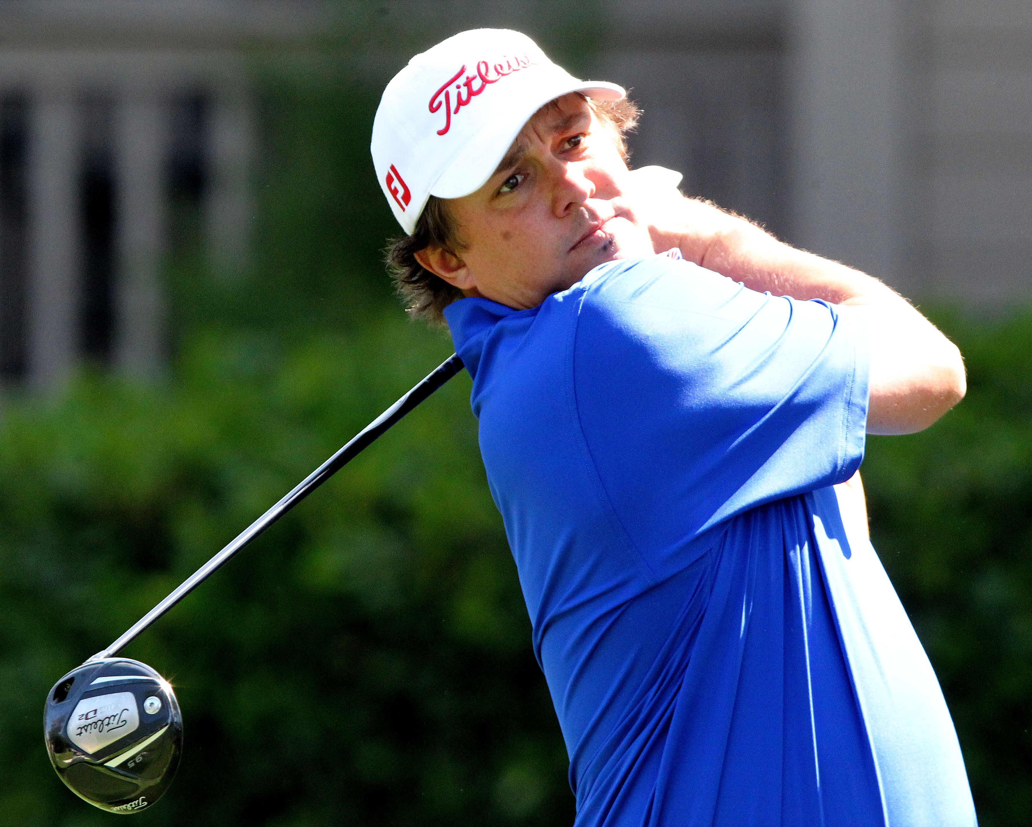 RBC Heritage Practice Round April 10, 2012 in Hilton Head, SC